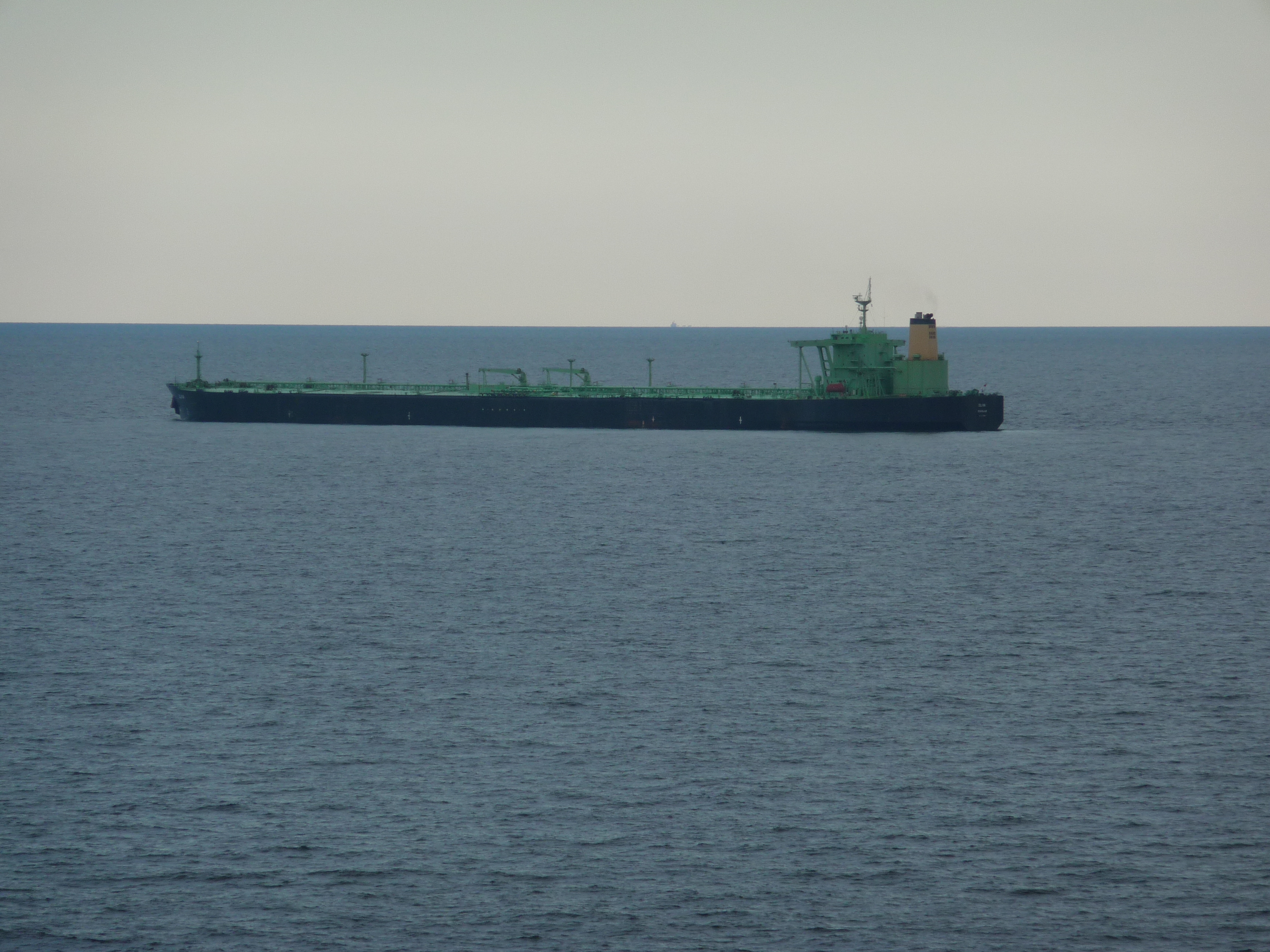 Tanker Oliva offloading at LOOP IMO Number: 9196606 MMSI Number: 235011210 Callsign: MMVF5 Length: 333 m Beam: 60 m